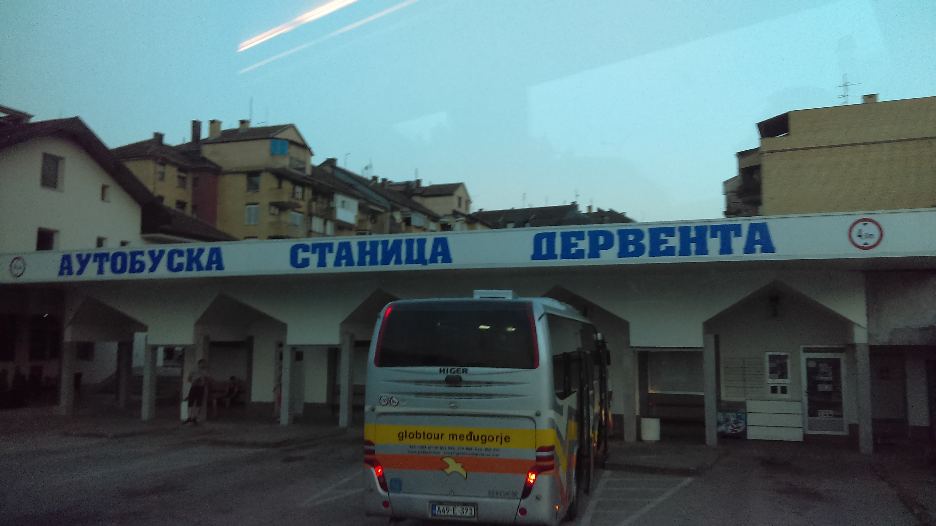 Derventa Bus Station, Bosnia and Herzegovina